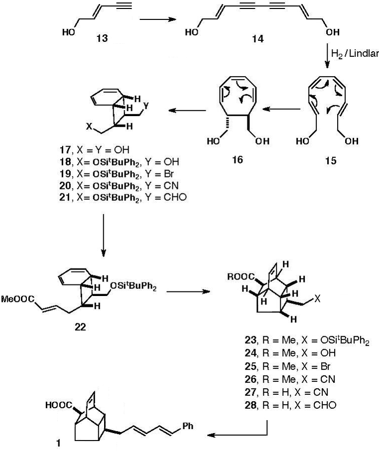 Reaction sequence in Nicolaou's 1982 biomimetic total synthesis of endiandric acid C, originally deriving from File:Biomimetic_synthesis.pdf, here [1], by graphically editing and cropping to correct error displaying diene side chain of produce early, instead of "X" substituent. Compare this and source PDF file to see difference. RELEVANT REFS: K. C. Nicolaou, 2009, Inspirations, Discoveries, and Future Perspectives in Total Synthesis, J. Org. Chem. 74(3):951–972, see [2], accessed 6 June 2014. AND K. C. Nicolaou, N. A. Petasis, R. E. Zipkin, 1982, The endiandric acid cascade. Electrocyclizations in organic synthesis. 4. Biomimetic approach to endiandric acids A-G. Total synthesis and thermal studies, J. Am. Chem. Soc. 104(20):5560–5562, see [3], accessed 6 June 2014. Created by med0349 from indicated file by User:Sharlenech with GraphicConverter9. Le Prof.